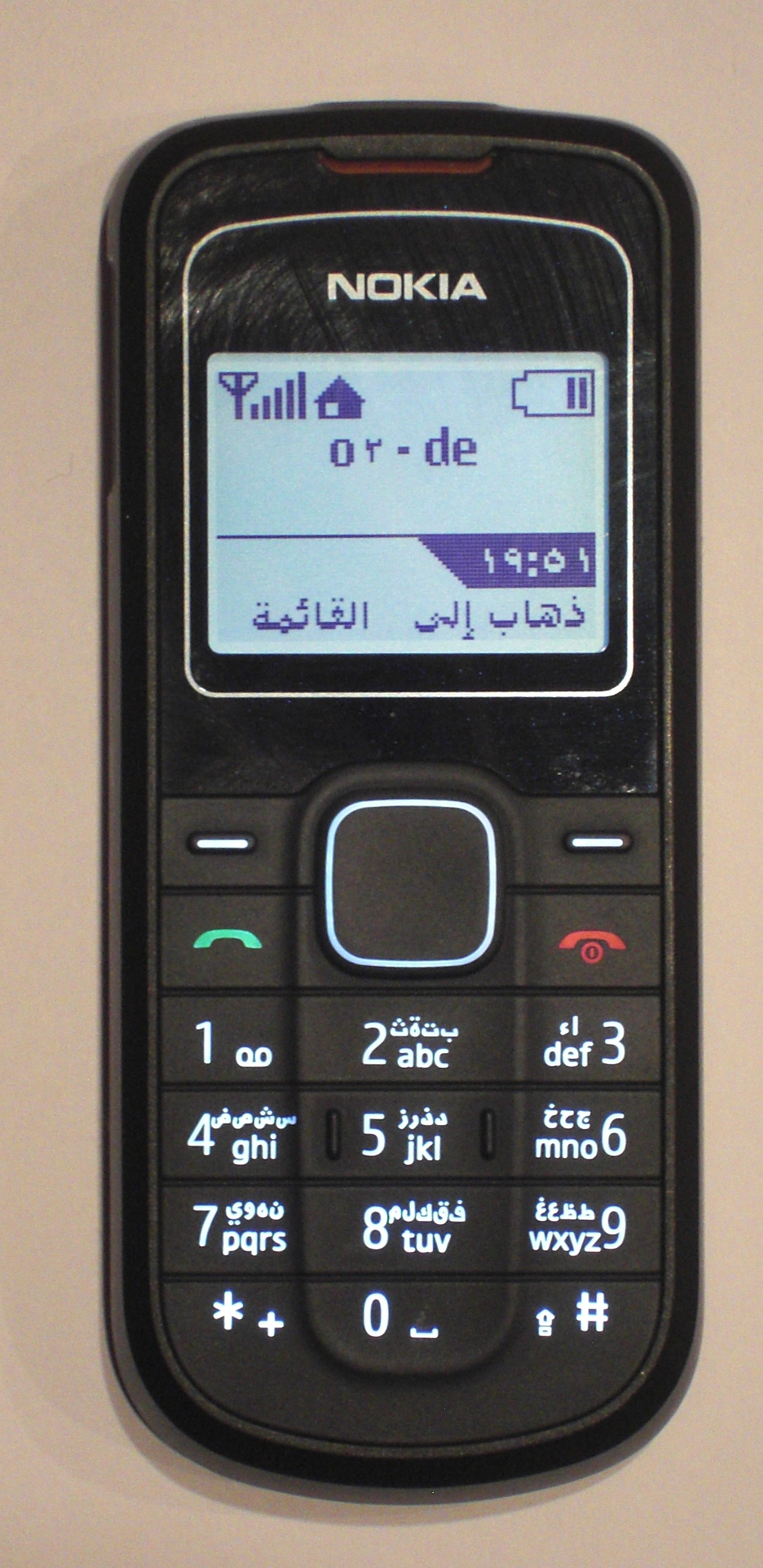 Nokia 1202 in arabic language